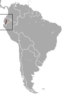 Wandering Small-eared Shrew (Cryptotis montivaga) range